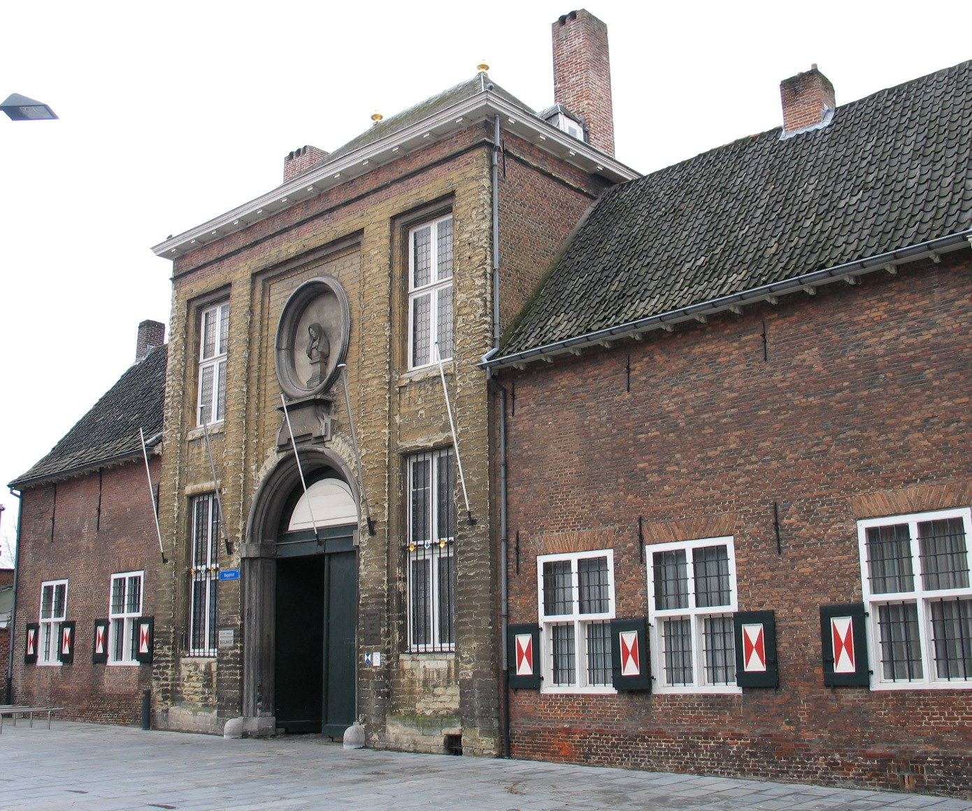 Entrance of the beguinage of Turnhout in Belgium